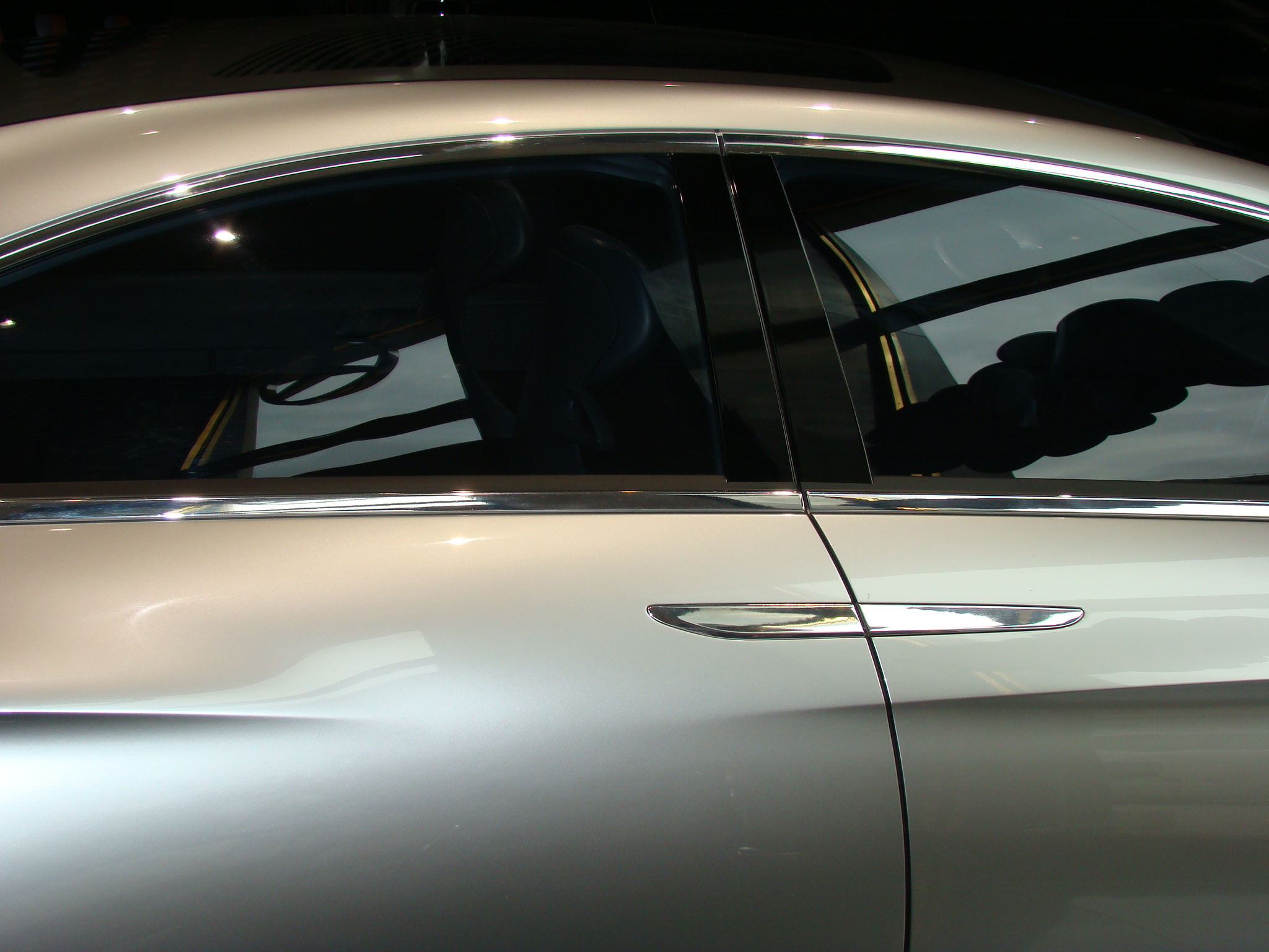 Mercedes-Benz F800